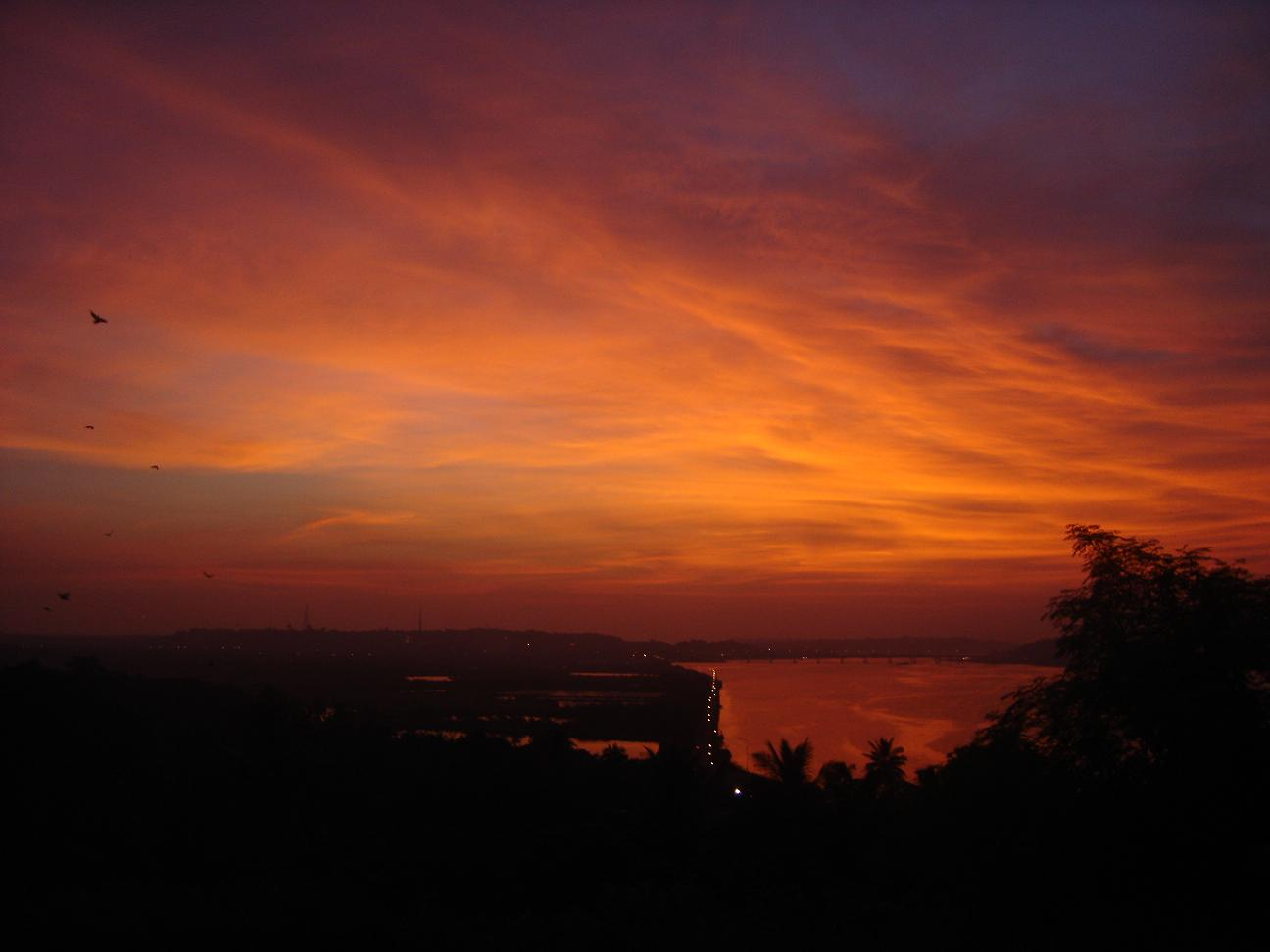 View from Raibandar hill